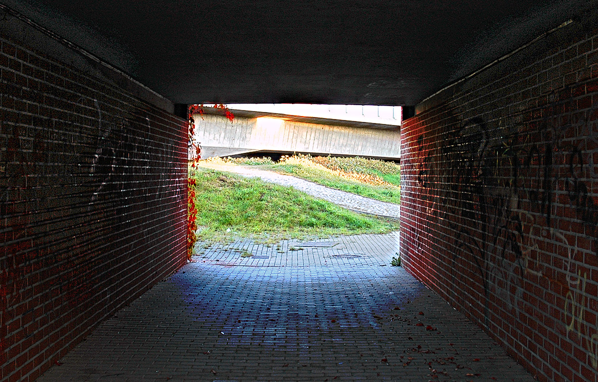 This image shows an underpass. It is located below the beer bridge (Bierbrücke) in Zwickau (Saxony, Germany).